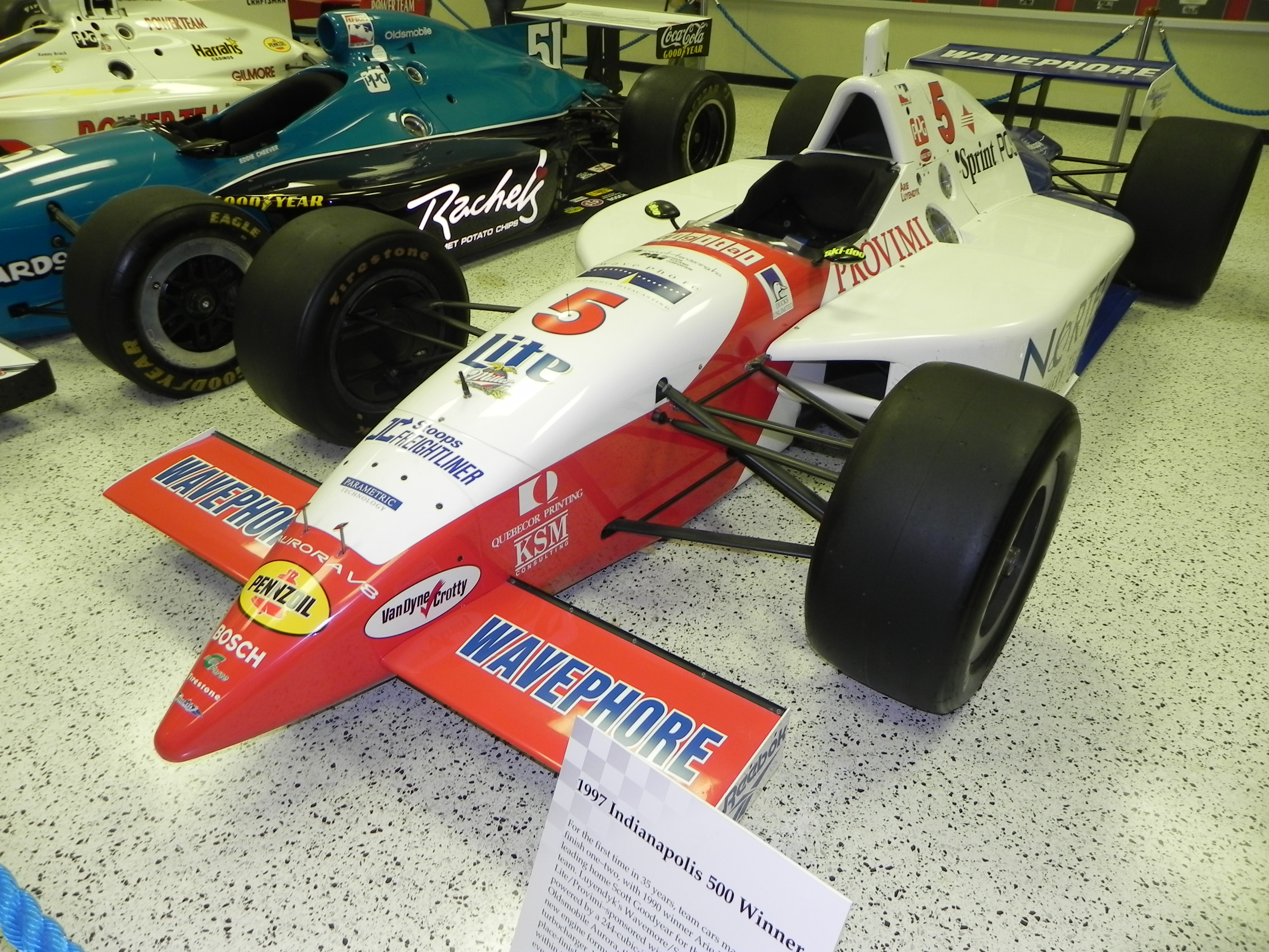 Image of the winning car of the 1997 Indianapolis 500 (Arie Luyendyk). Photo was taken at the Indianapolis Motor Speedway Hall of Fame Museum, during the month of May 2011, at the 100th Anniversary "Ultimate Indianapolis 500 Winning Car Collection."